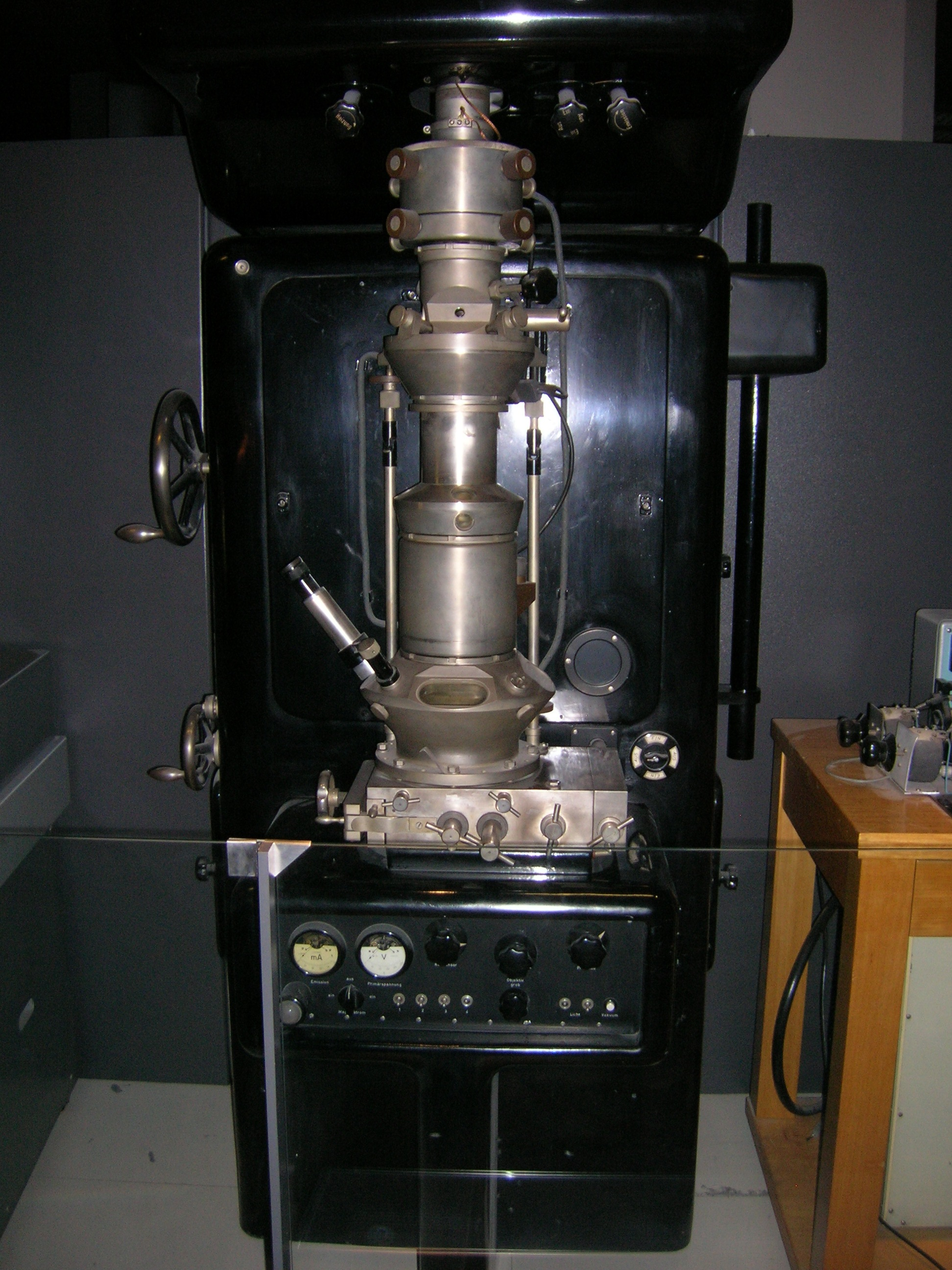 First Electron Microscope with Resolving Power Higher than that of a Light Microscope Ernst Ruska, Berlin 1933 Replica by Ernst Ruska, 1980 For the first time the apparatus had a condensor in front of the specimen and two magnifying lenses. Magnification around 12,000 i061706 125